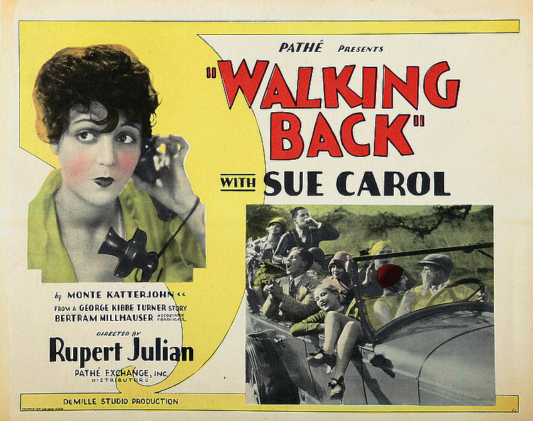 Lobby card for the American comedy film Walking Back (1928).